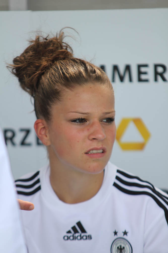 German international footballer Melanie Leupolz